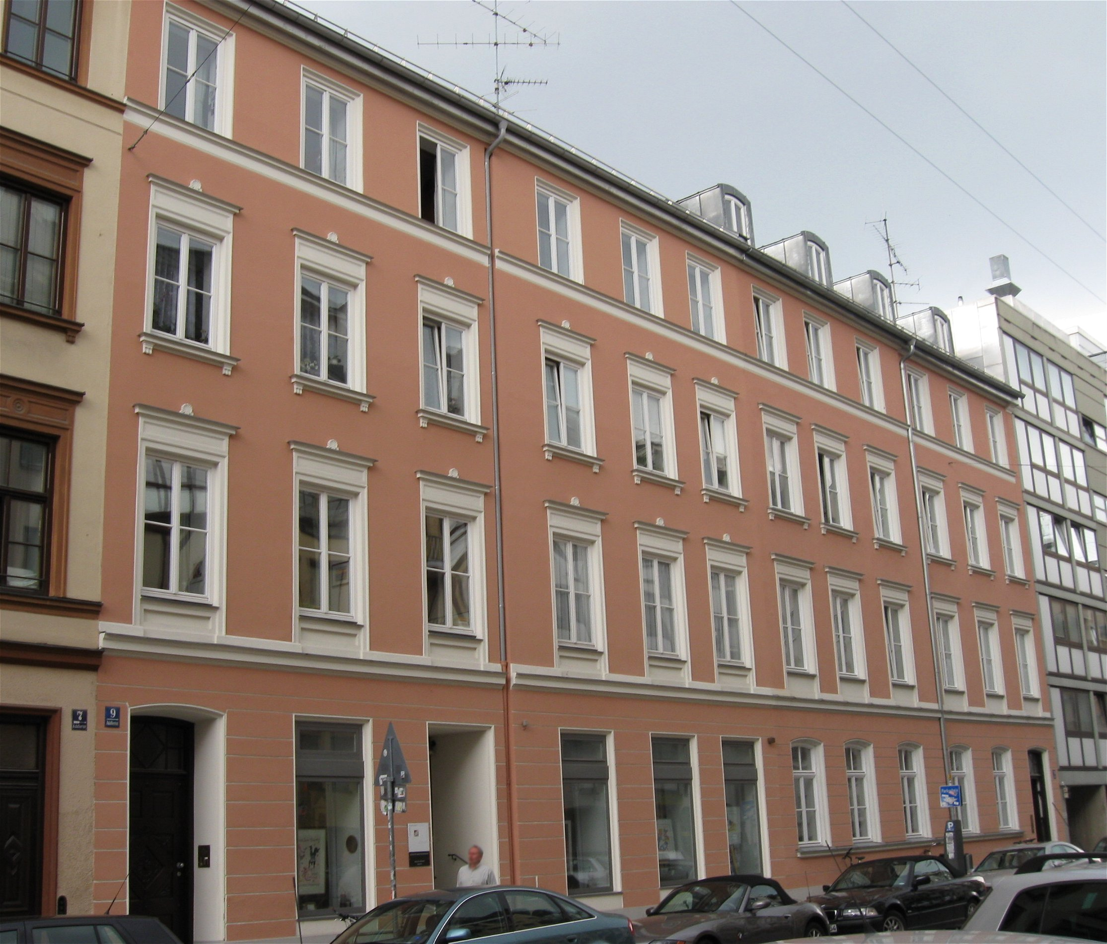 Adalbertstraße 9; Mietshaus, viergeschossiger Satteldachbau, mit spätklassizistischer Fassadengestaltung, von Max Verst, 1864; bauliche Gruppe mit Nr. 7.